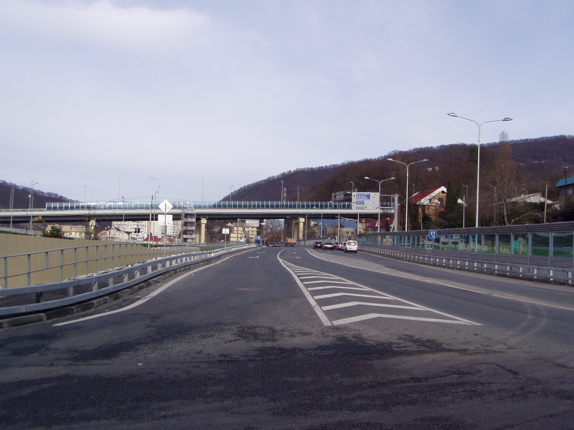 Sochi Beltway interchange with Plastunskaya street, Sochi, Russia